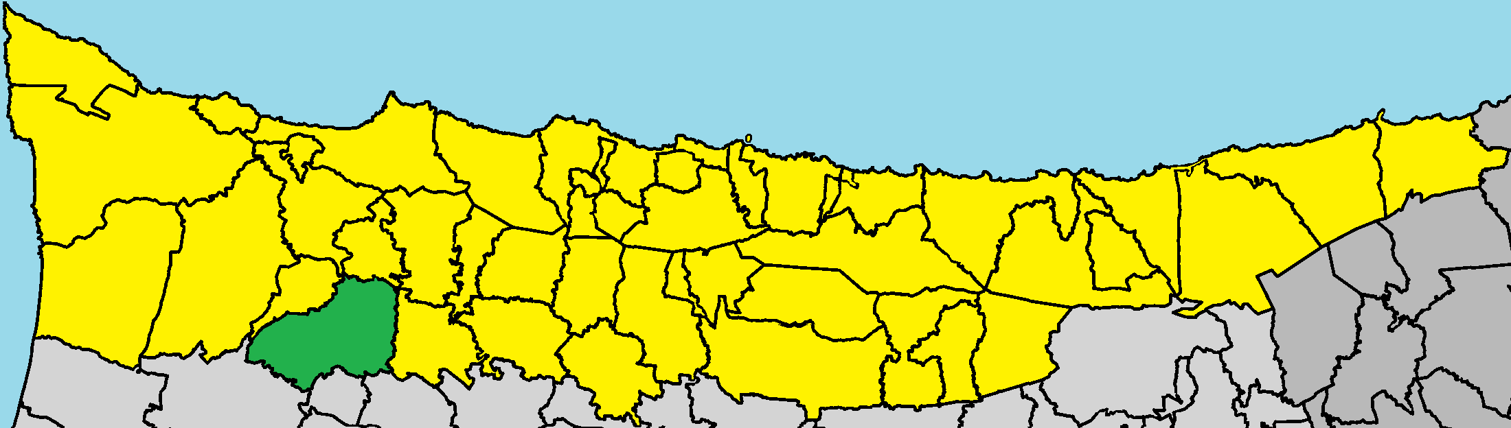 Asomatos Keryneias in Kyrenia District (de jure).